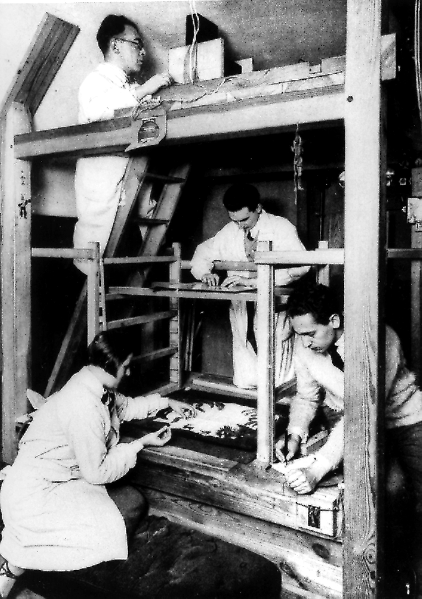 The German pioneer of silhouette animation film, Lotte Reiniger, with her husband and partner Carl Koch; Walter Türck and Alexander Kardan working at the multiplae camera